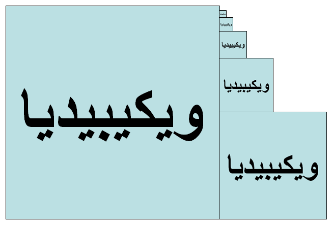 Image Pyramid in Arabic